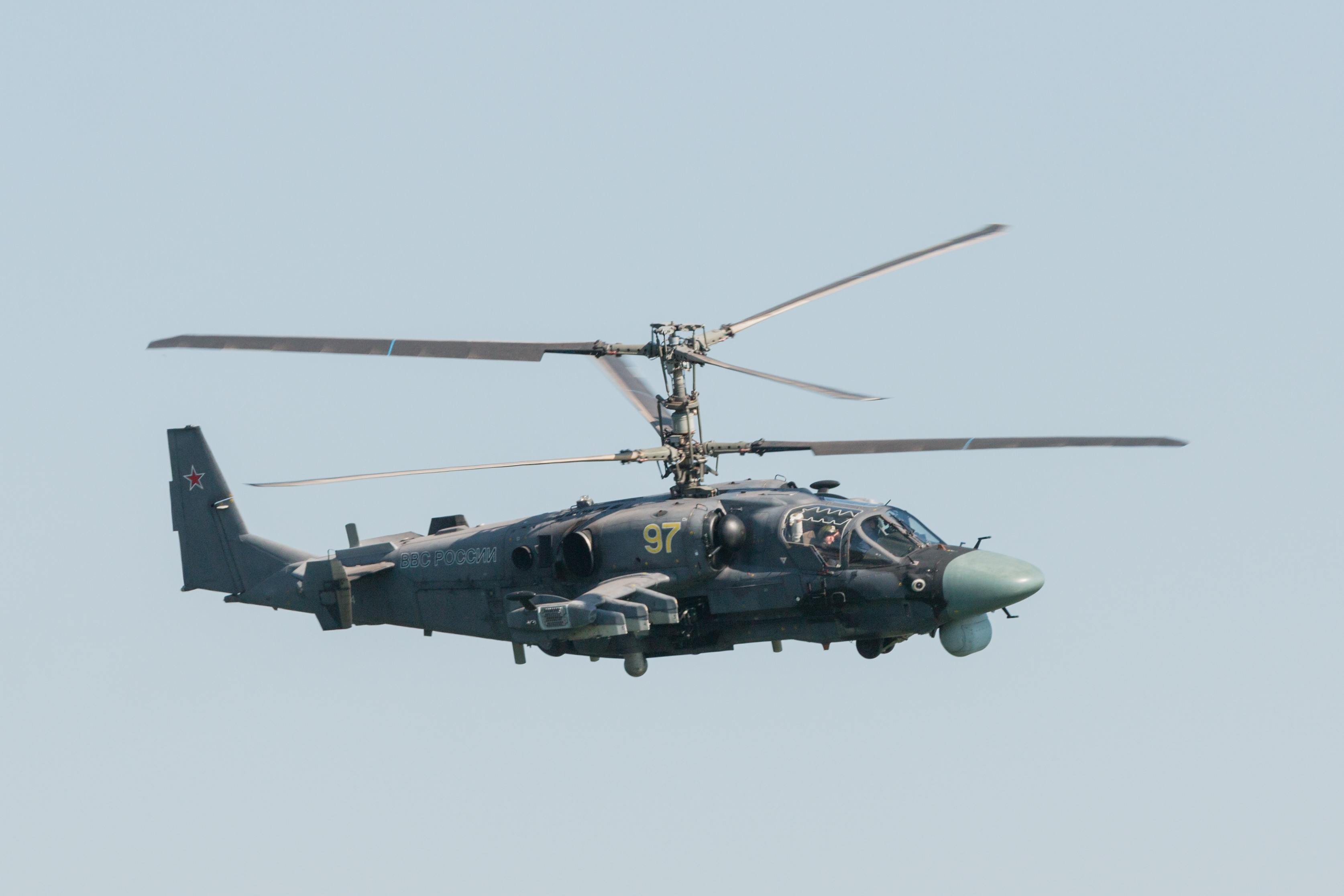 Ka-52 "Alligator" at an air show on the day of the city Voronezh, 2014